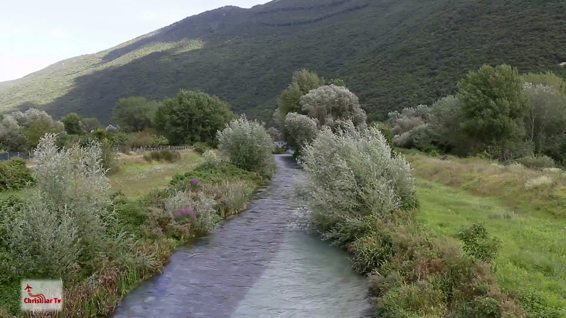 The Peschiera river near its springs - municipalty of Cittaducale, province of Rieti (Lazio, Italy)